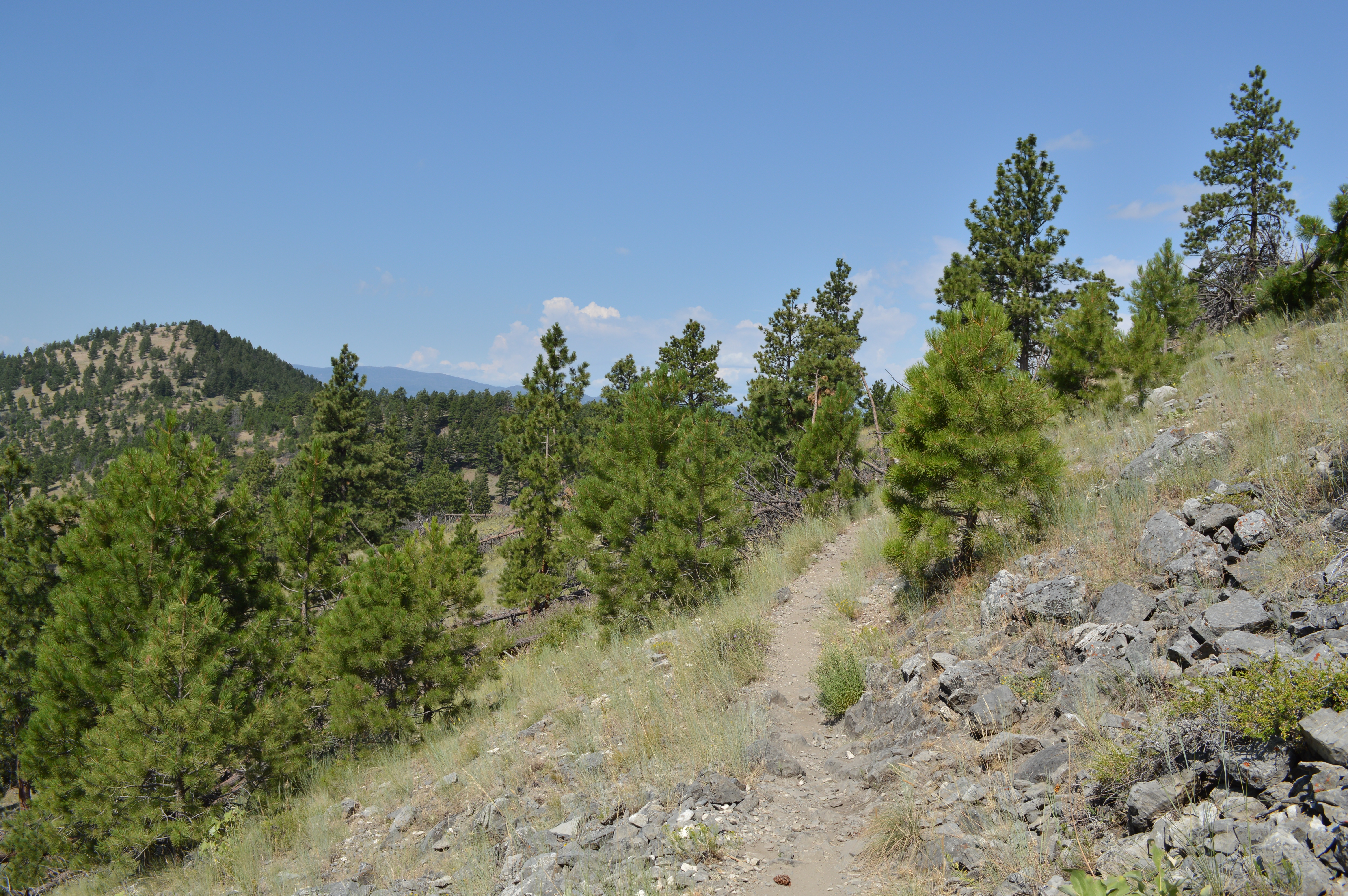 A view of the Backside Trail at Mount Helena City Park, looking southward down the trail, in July 2018.